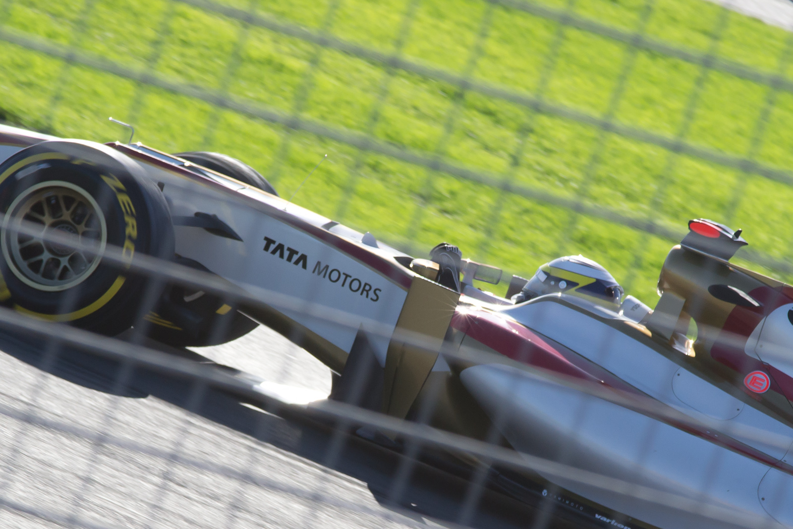 De la Rosa Australian GP